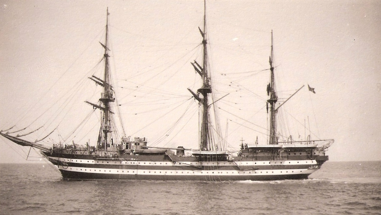 Cristoforo Colombo. The original picture, scanned by Emiliano Burzagli, belongs to the Private archive of Burzaghi family, Italy.